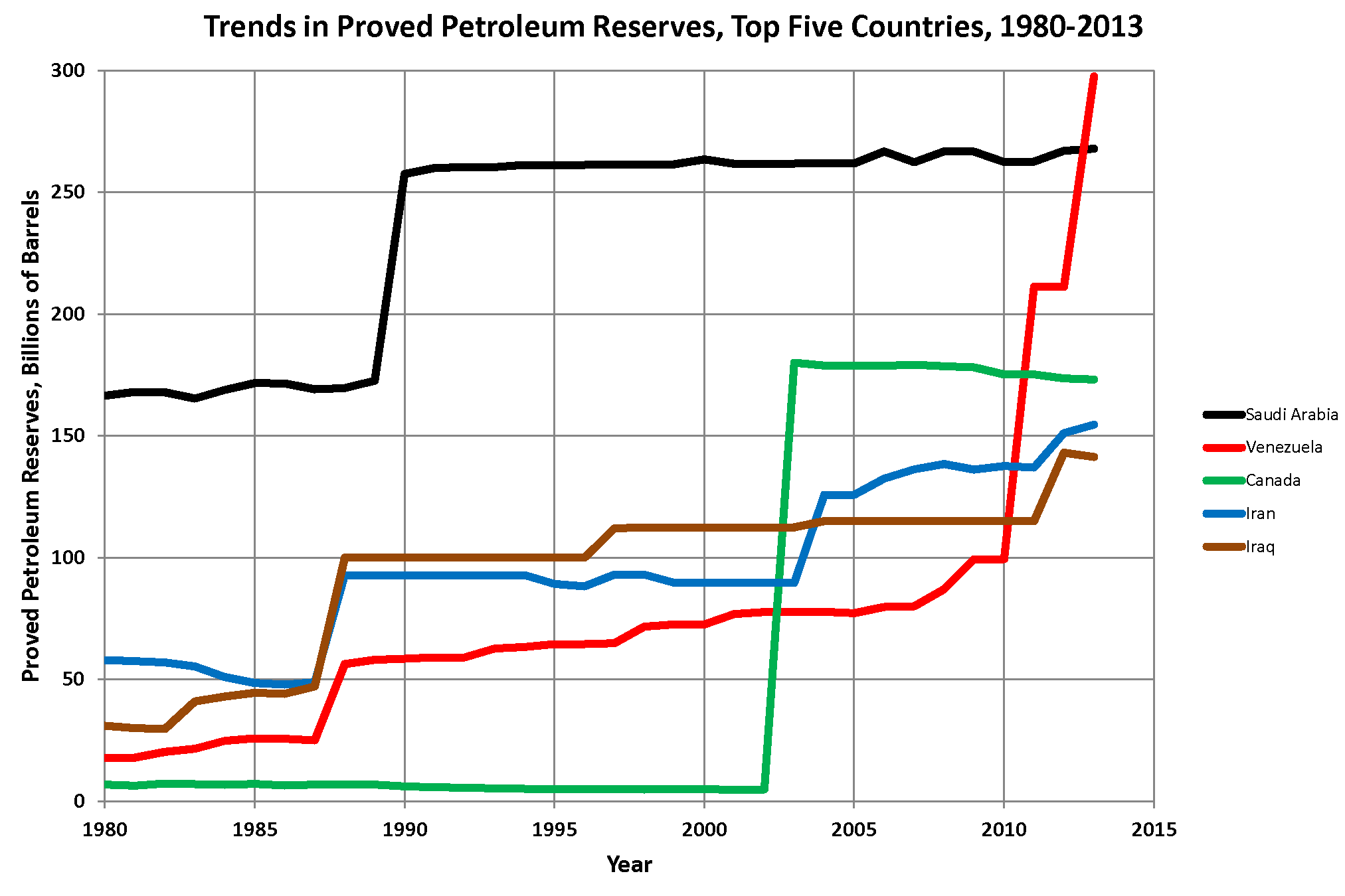 Trends in proved oil reserves in top five countries, 1980-2013 (date from US Energy Information Administration)